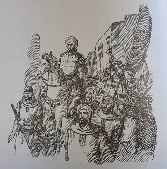 Saladin marches into Jerusalem followed by the Muslim Army.